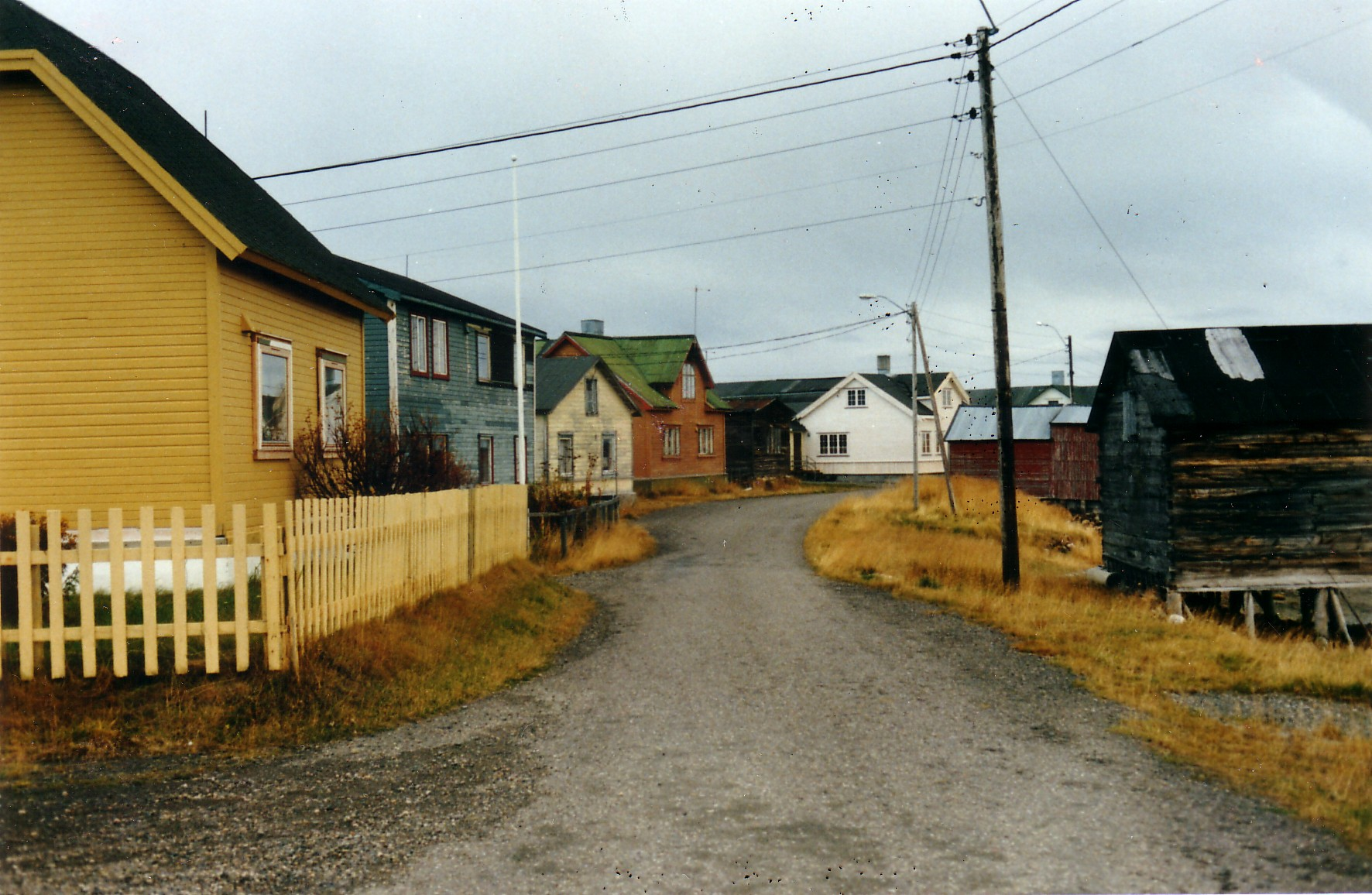 Skallelv in the community of Vadsø, Norway.